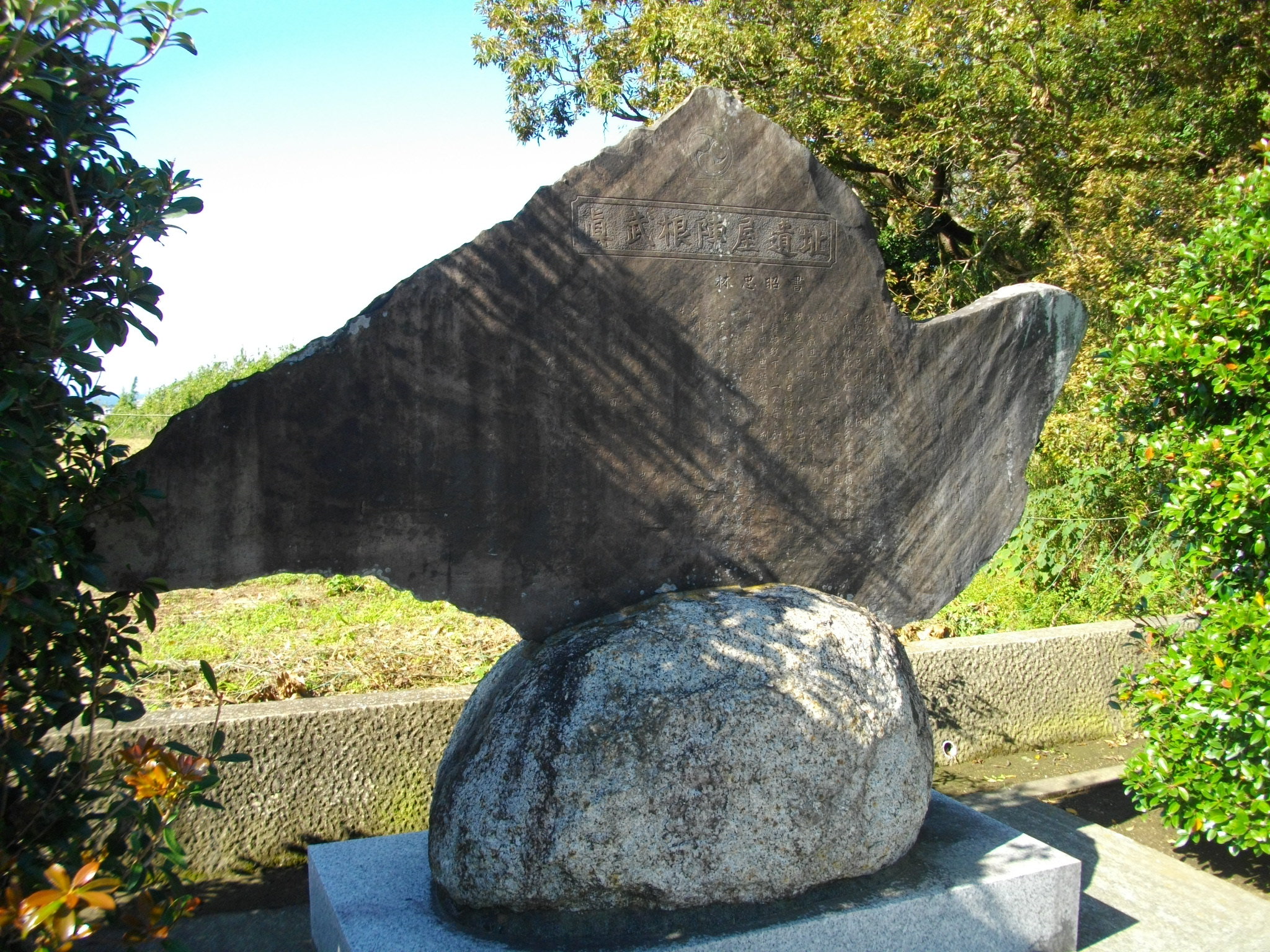 Ruins of Mafune Jin'ya (Jozai Han Office)